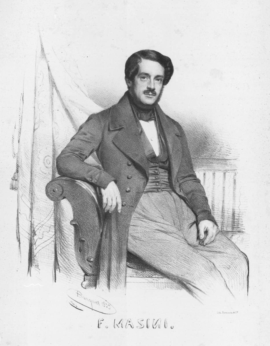 French composer of Italian origin François Masini (1804-1863)